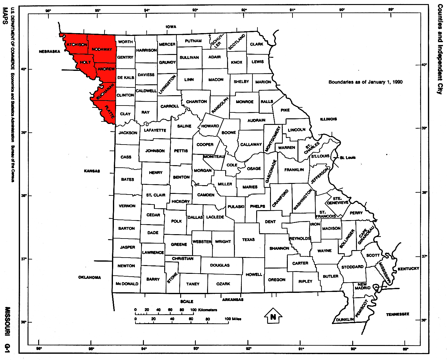 Edited Image:Missouri counties.gif in w: .